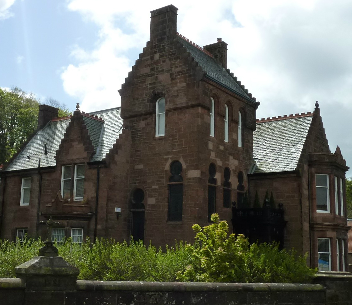 Grade B Listed property formerly the Bank Manager's house and adjoining Bank